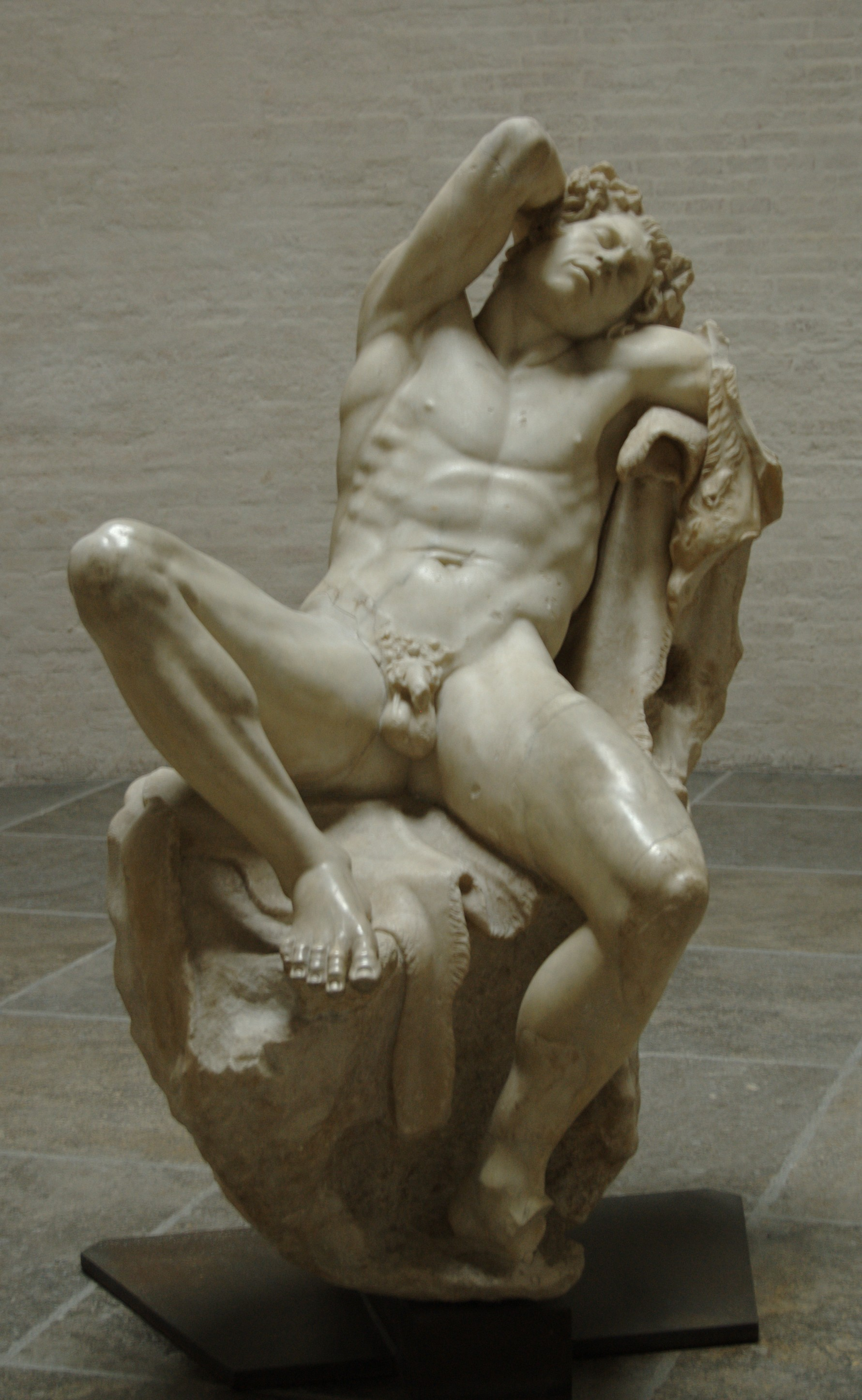 Marble copy by a Hellenistic sculptor of the Pergamene school or a Roman sculptor, of a bronze original.